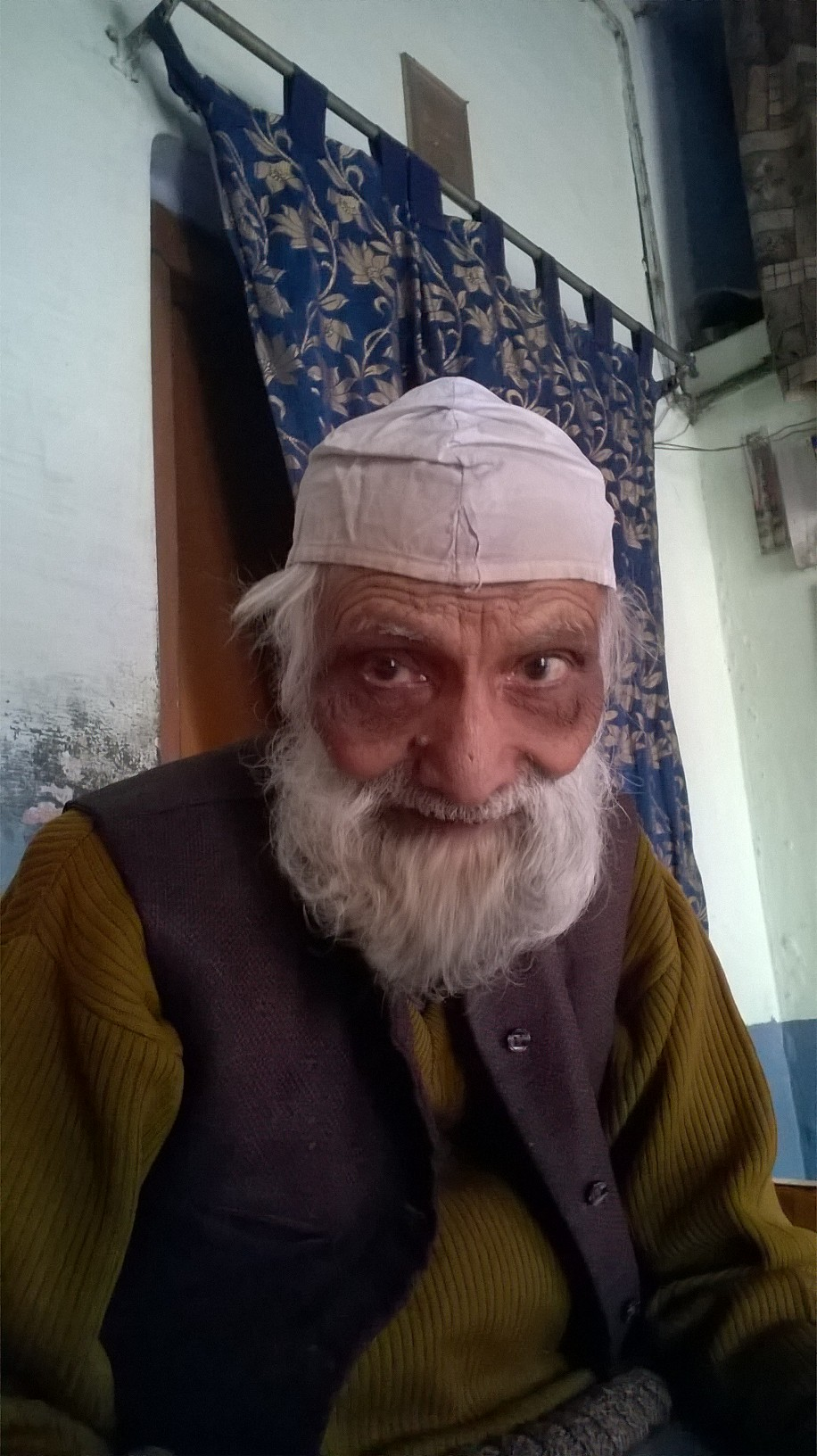 Dr.Ibrat Bahraichi is legendry poet of Dist Bahraich. Ibrat Bahraichi on his home .